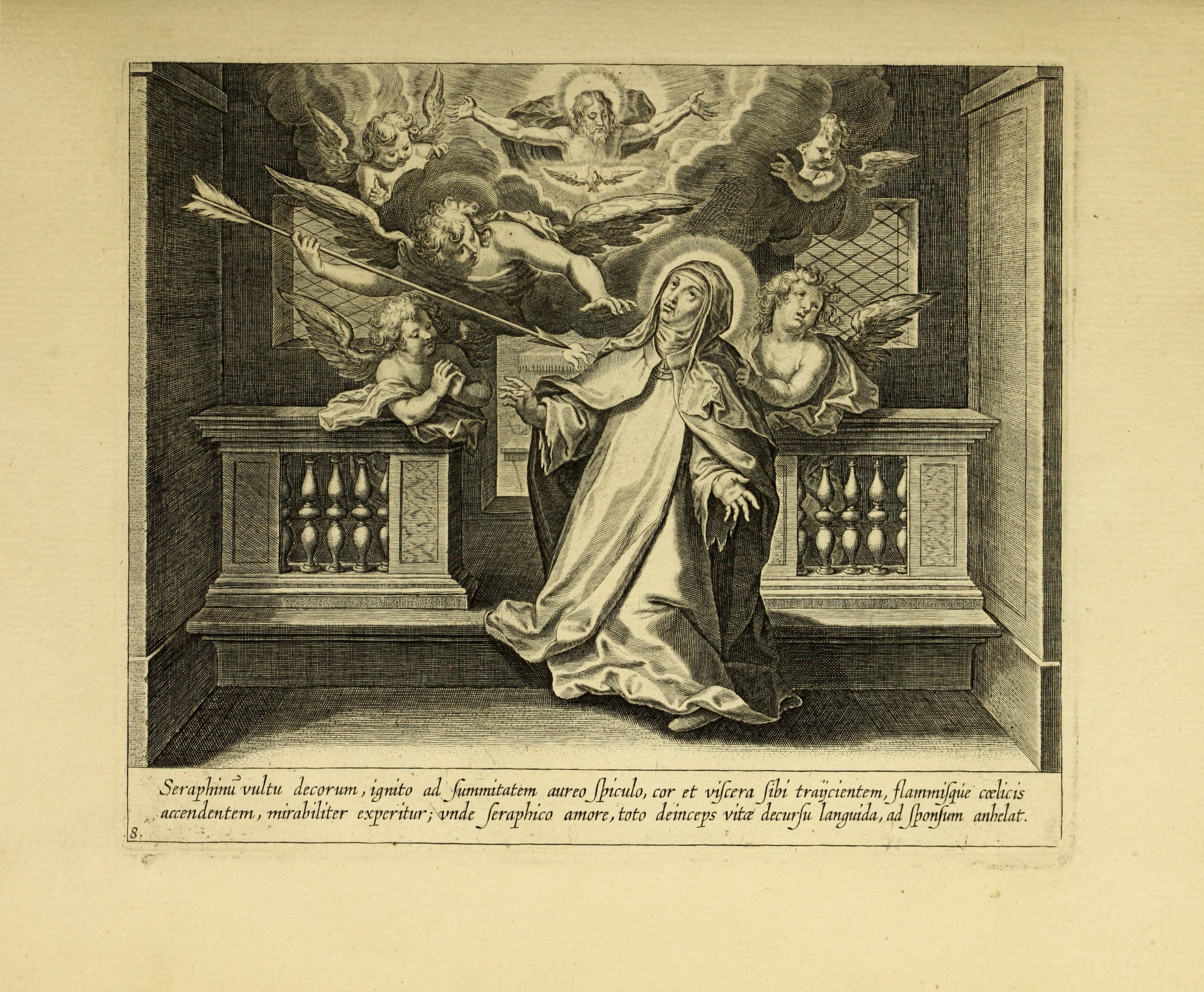 Internet Archive: Originally published in 1613?